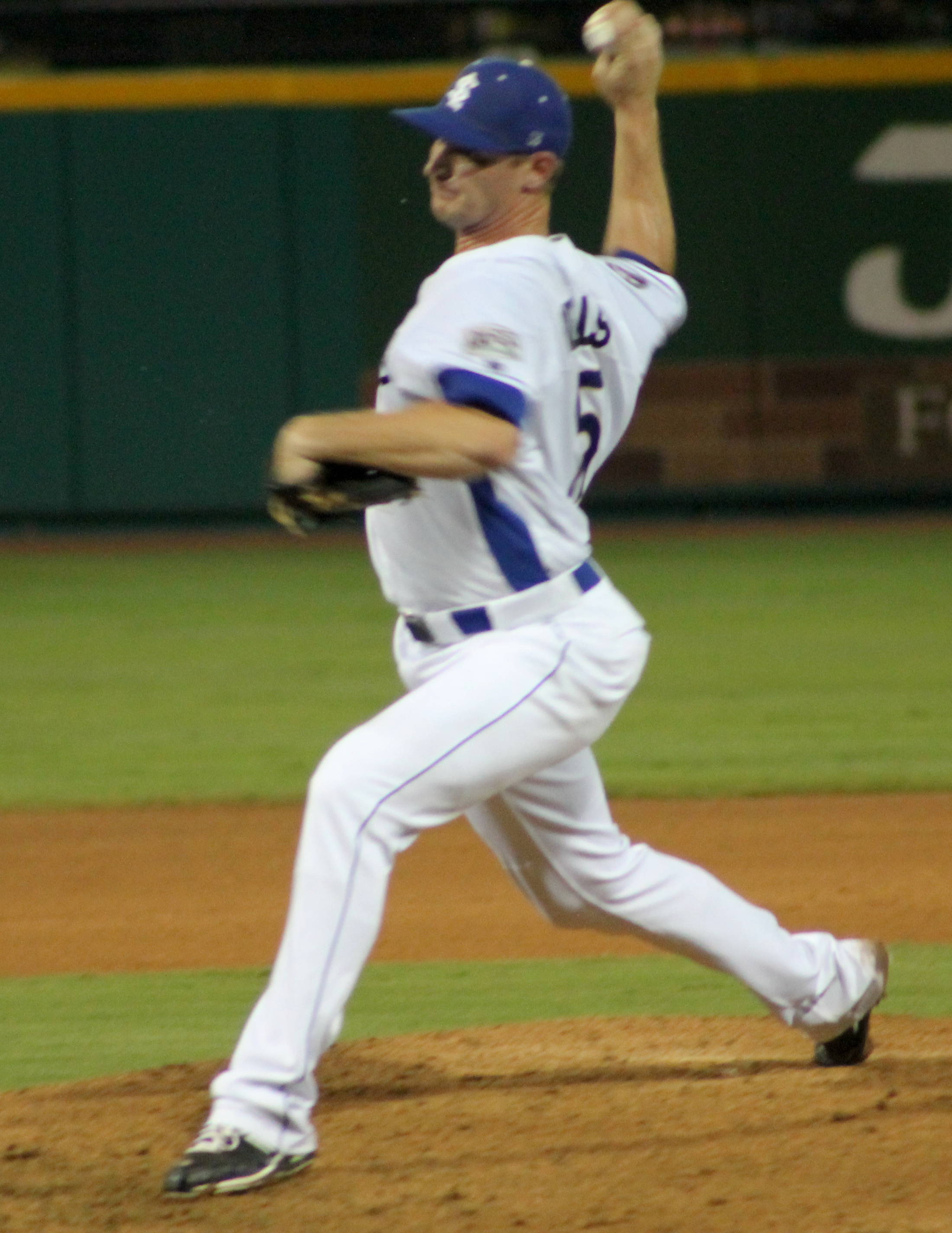 Jared Wells of the Sugar Land Skeeters pitches during a July 2014 game.